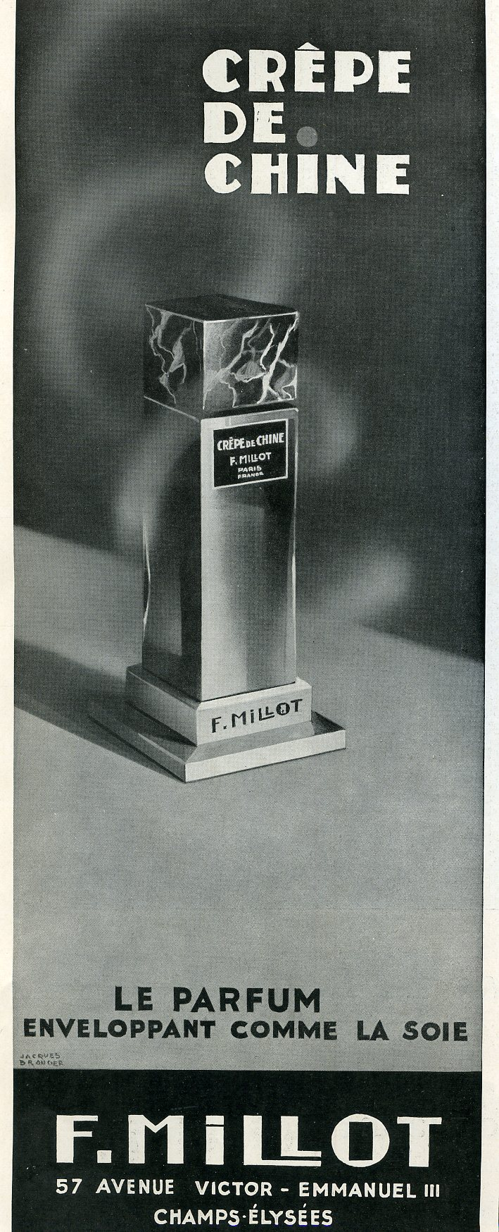 Advertisement for the perfume Crêpe de Chine by F. Millot, 57 Avenue Victor-Emmanuel III (now Avenue Franklin D. Roosevelt), Champs-Elysées, VIIIe arrondissement, Paris, France.